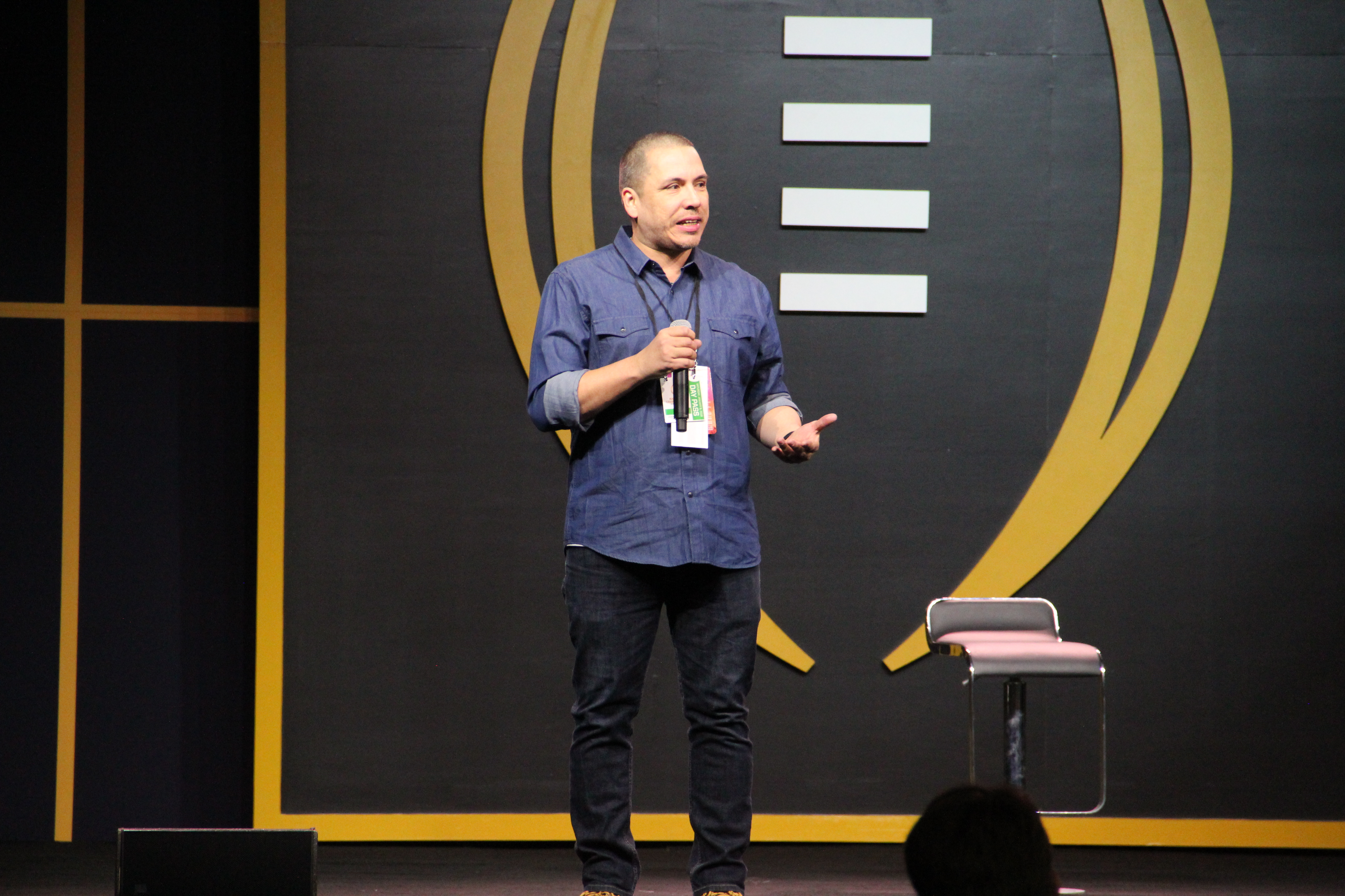 Joaquin Zihuatanejo at the 2018 College Football Playoff National Championship Playoff Fan Central